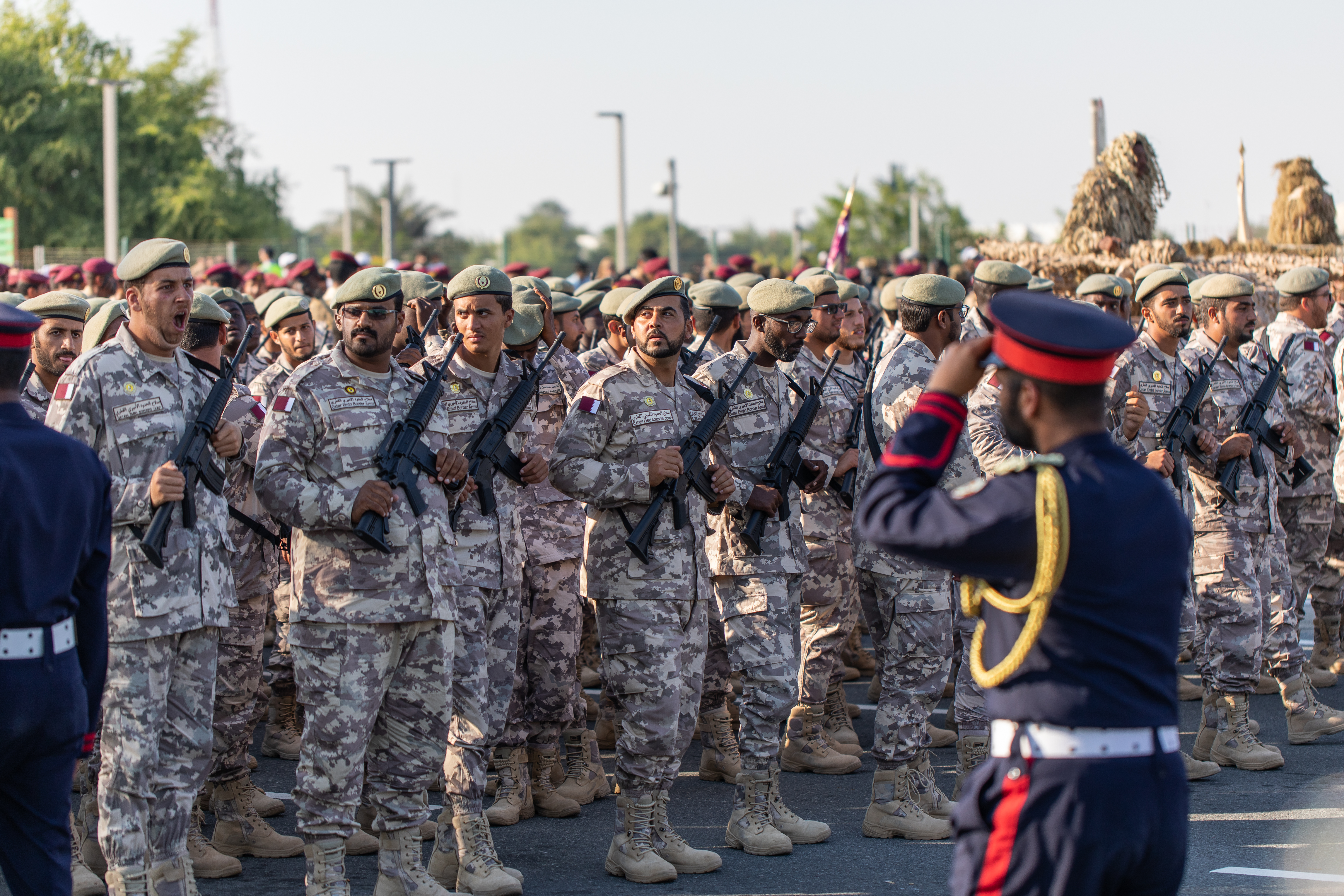 Soldiers at Military Parade on Qatar National Day on the 18th of December 2018. Photo by Ijas Muhammed Photography